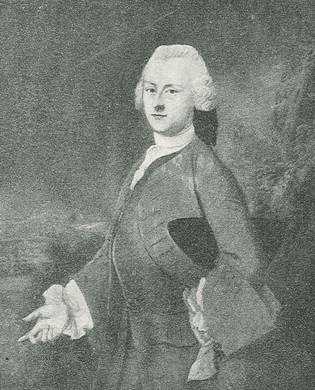 Samuel Aurivillius (1721-1767), Swedish professor of medicine and court physician.